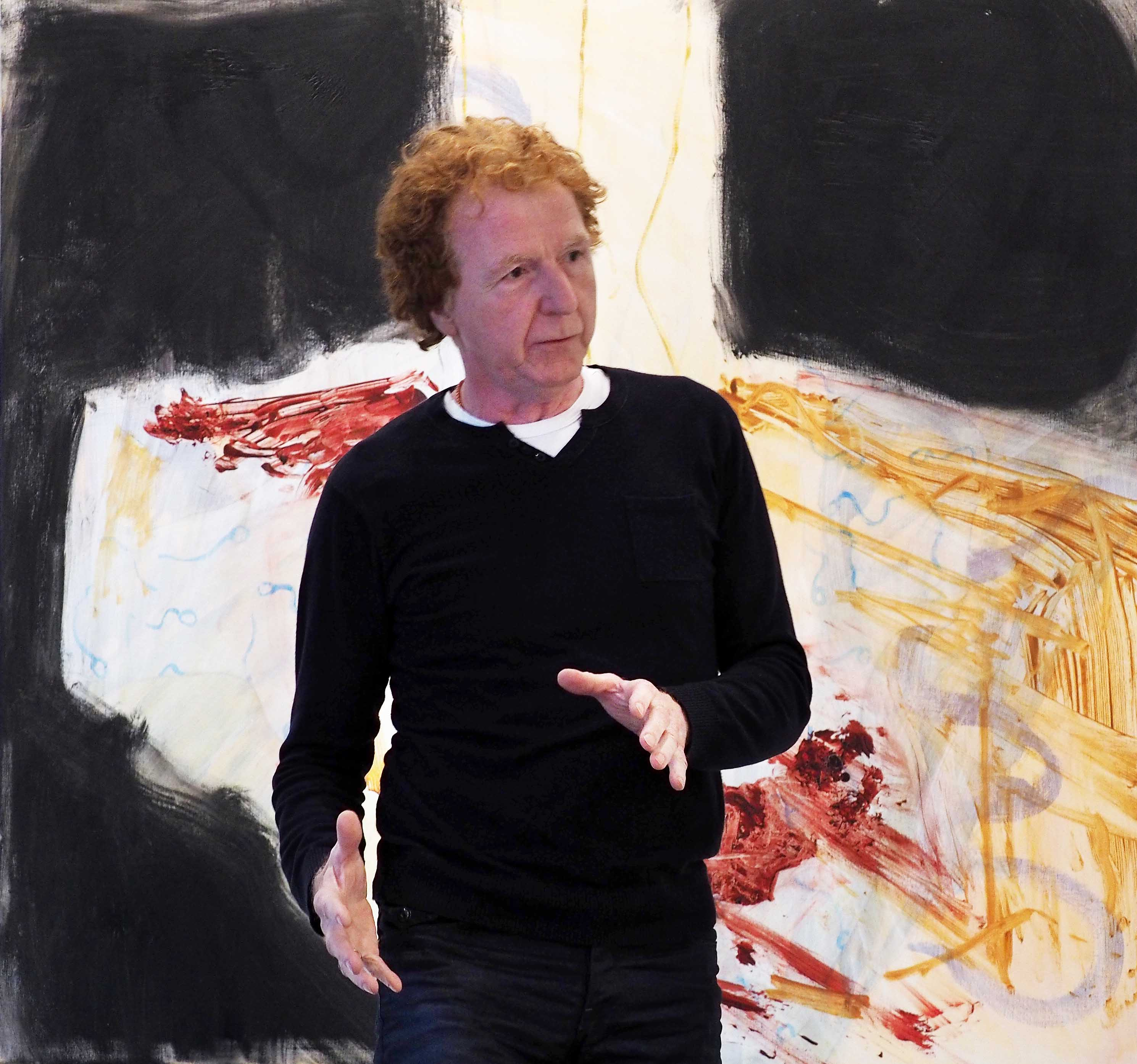 Artist Frank van Hemert in front of one of his paintings